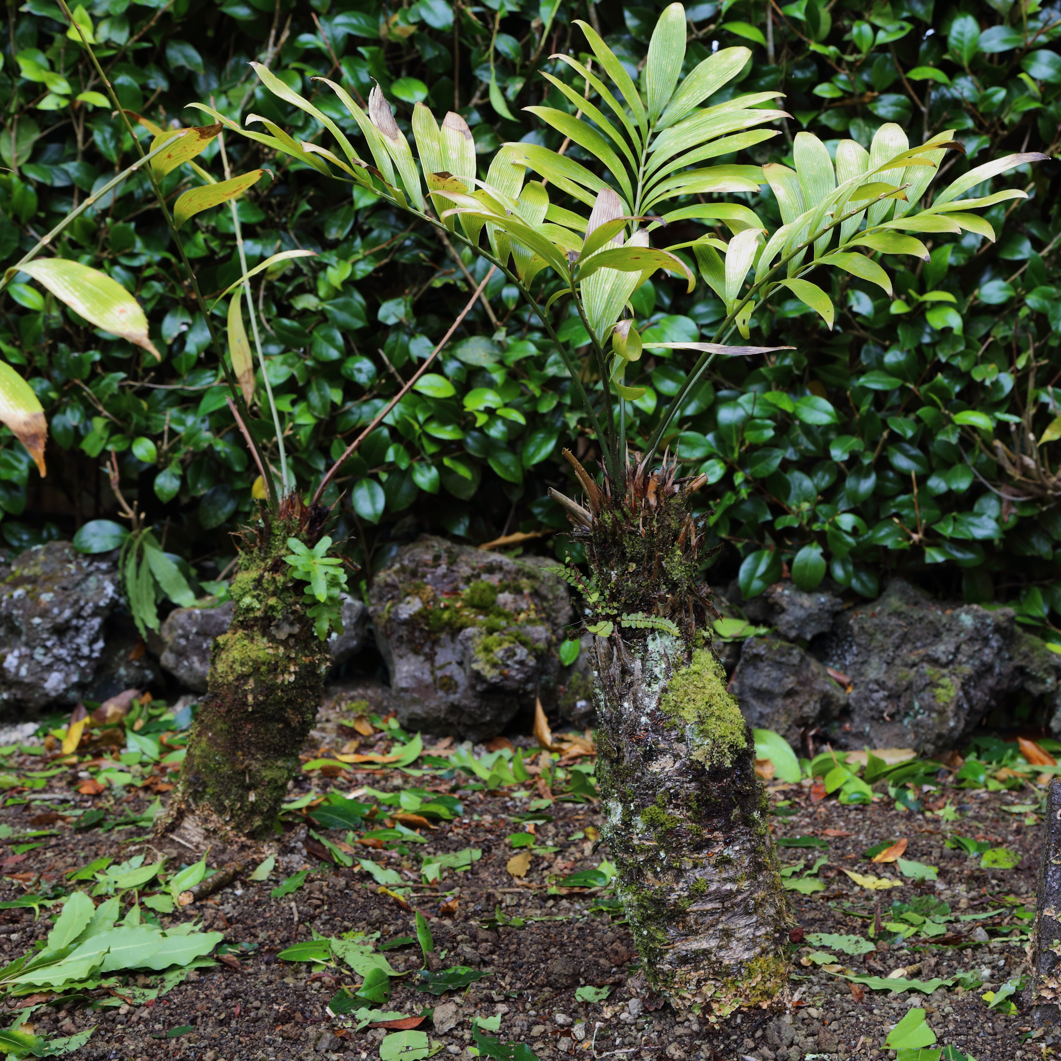 Yucca rostrata